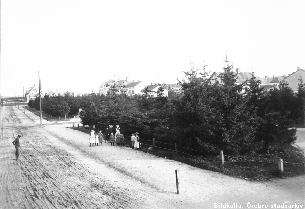 The park "Sofiaparken" in Örebro, Sweden, 1903